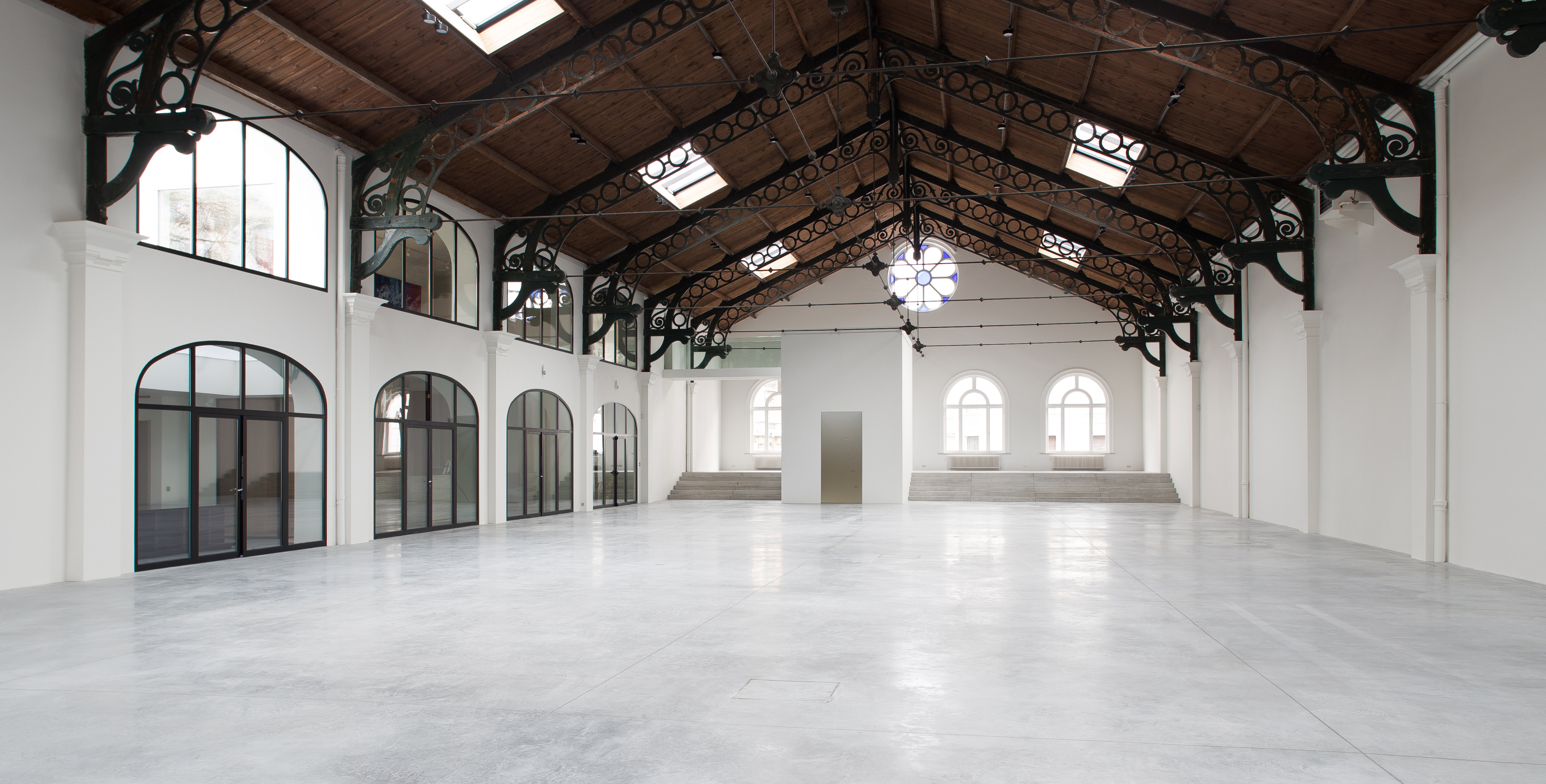 Patinoire Royale de Bruxelles: Contemporary art gallery in the heart of Saint Gilles district in Brussels